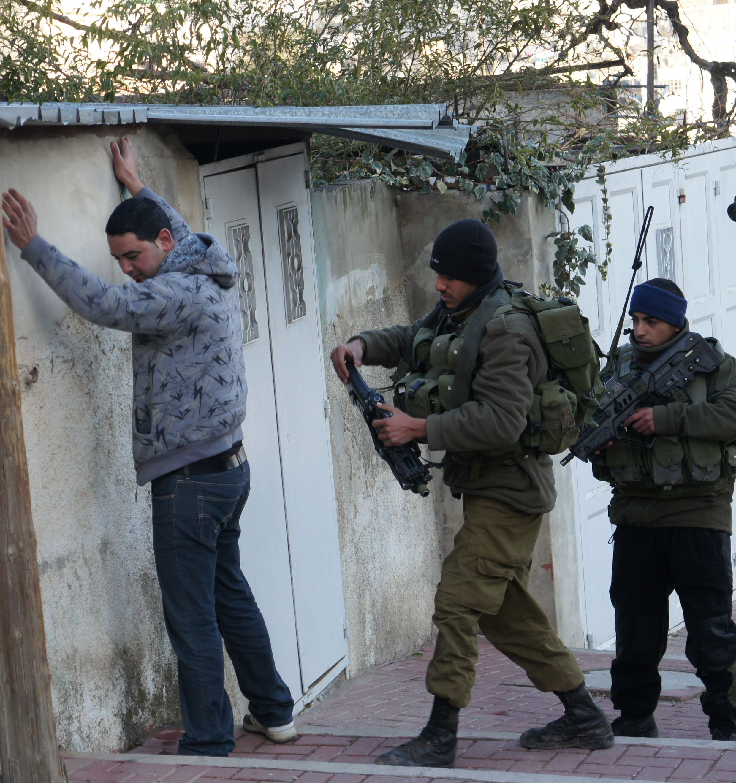 Golani soldiers searching a Palestinian in Tel Rumaida, by Gilbert checkpoint. Palestinians are routinely searched or detained.